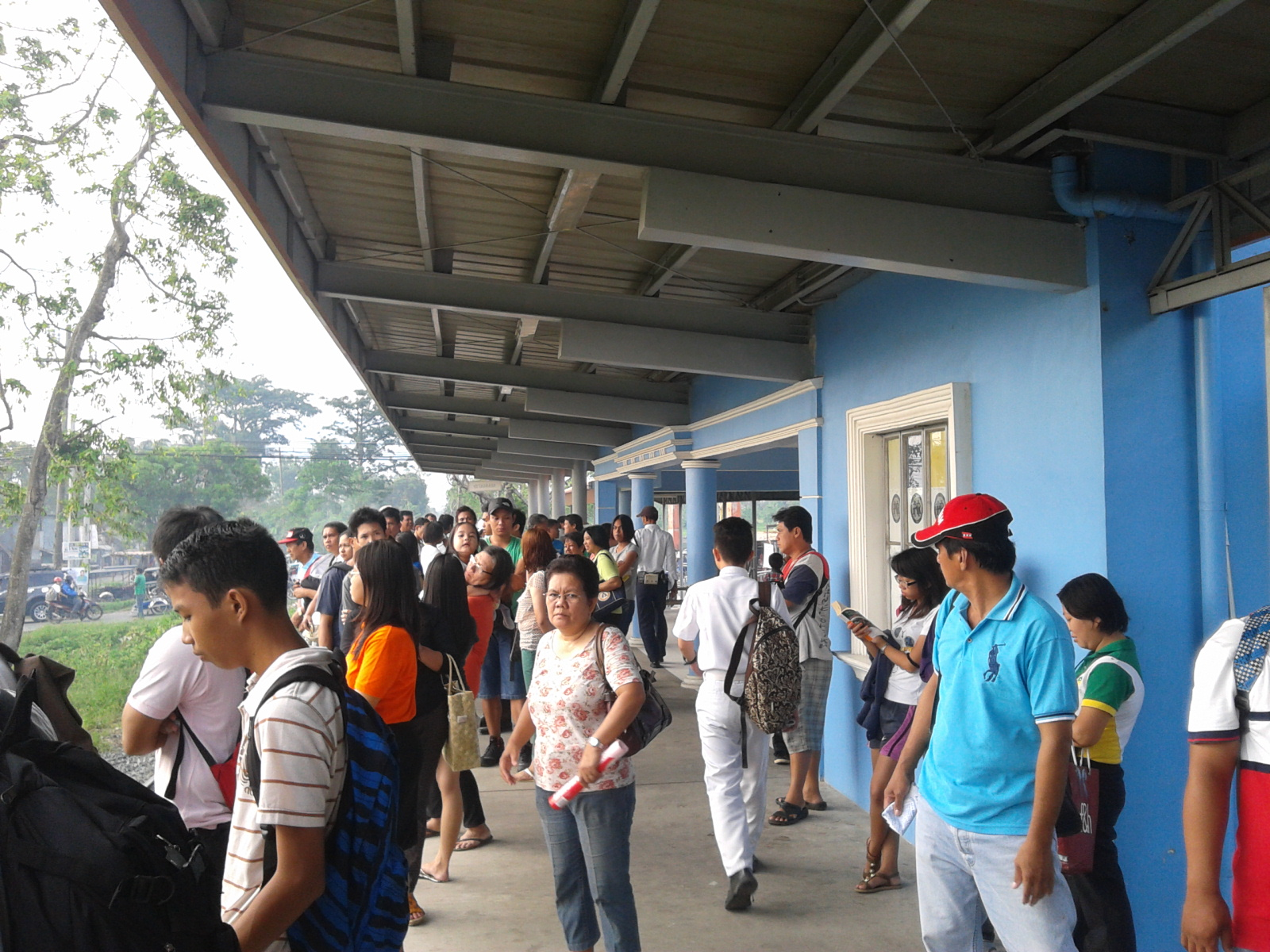 Platform area of PNR Mamatid Station